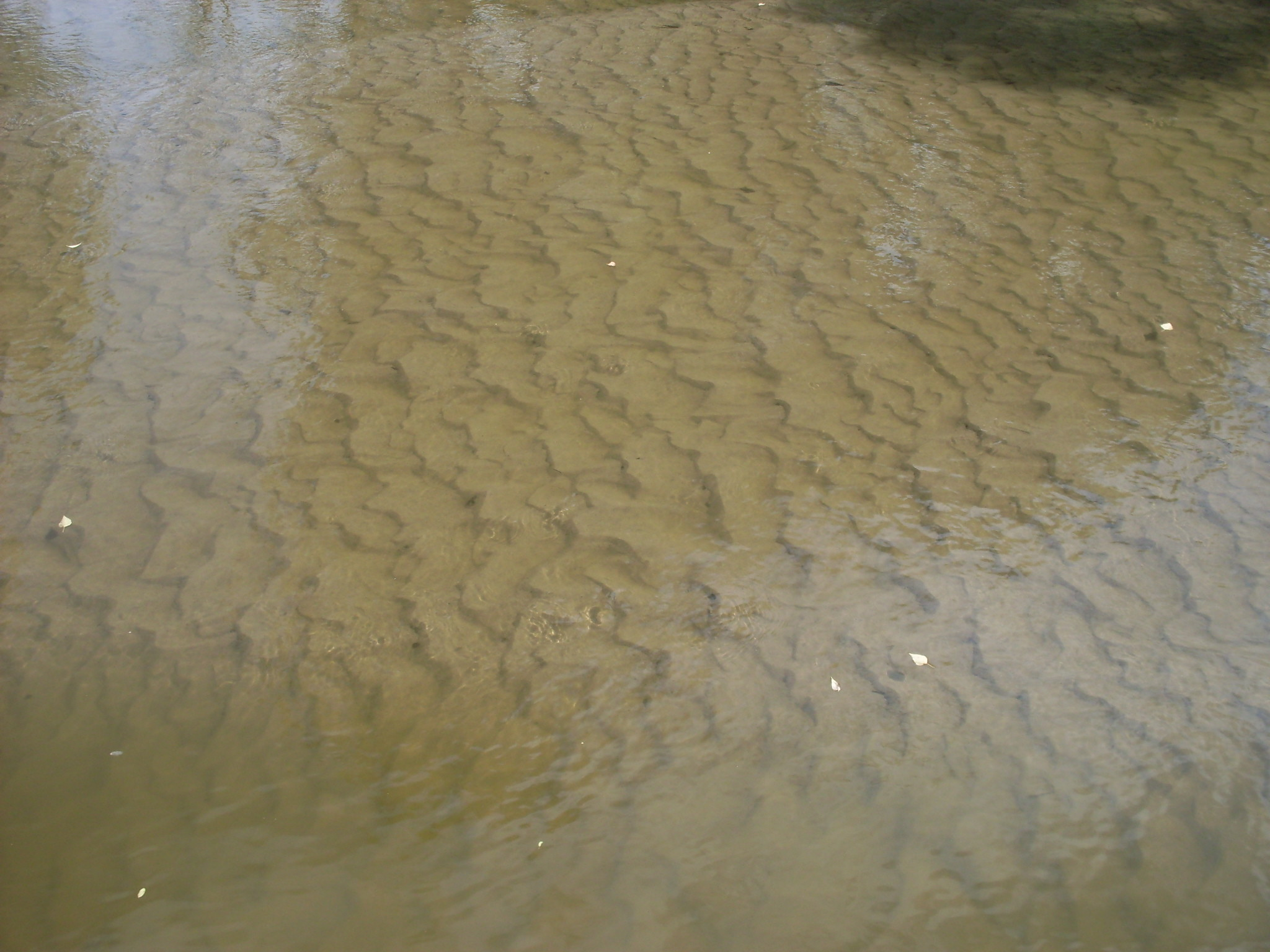 Barnaulka